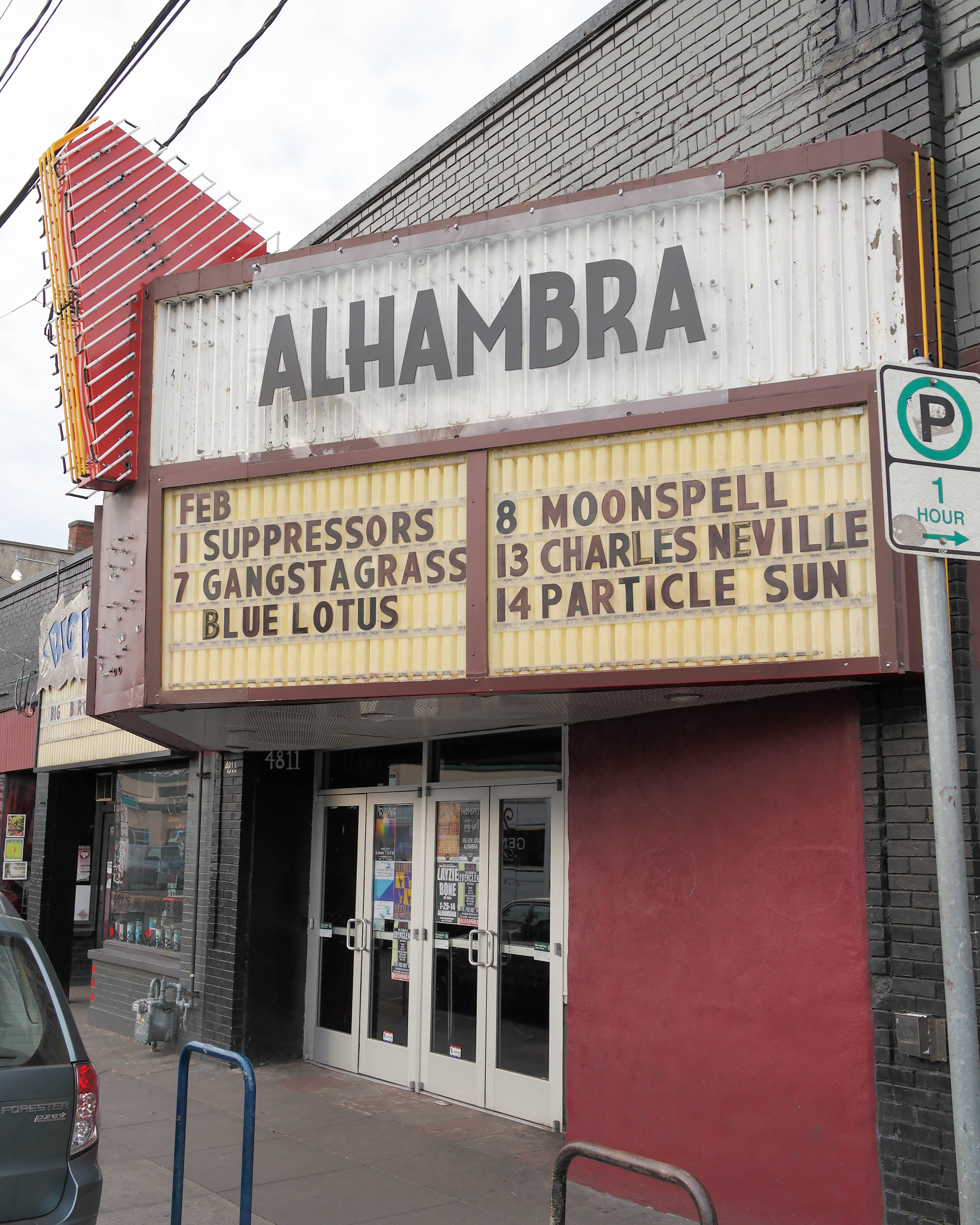 The Alhambra Theatre, formerly the Mt. Tabor, in Portland, Oregon